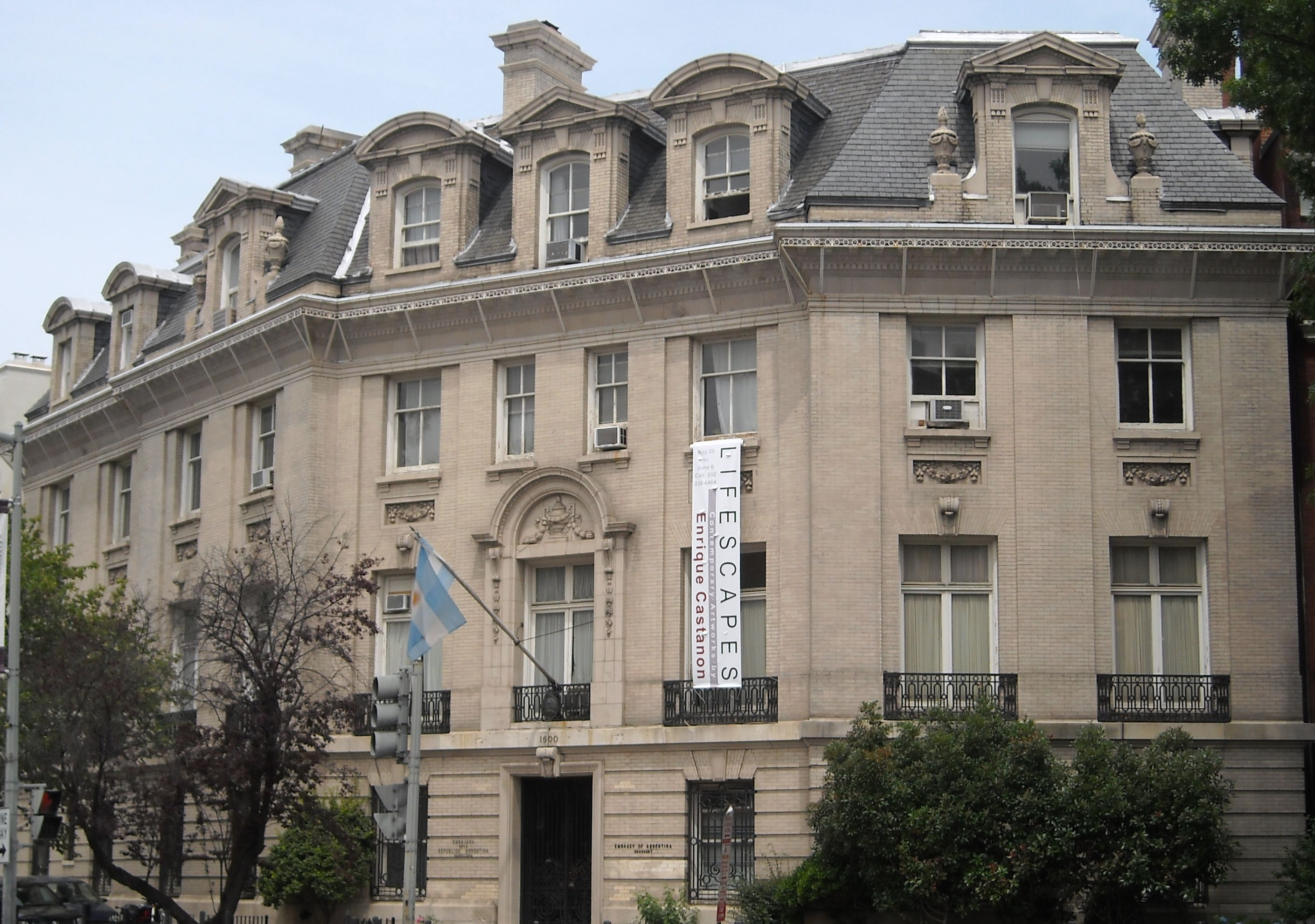 The Embassy of Argentina located at 1600 New Hampshire Avenue, NW in the Dupont Circle neighborhood of Washington, D.C. The Beaux-Arts building, originally known as the Huff House, was designed by Horace Trumbauer in 1907. It's a contributing property to the Dupont Circle Historic District.